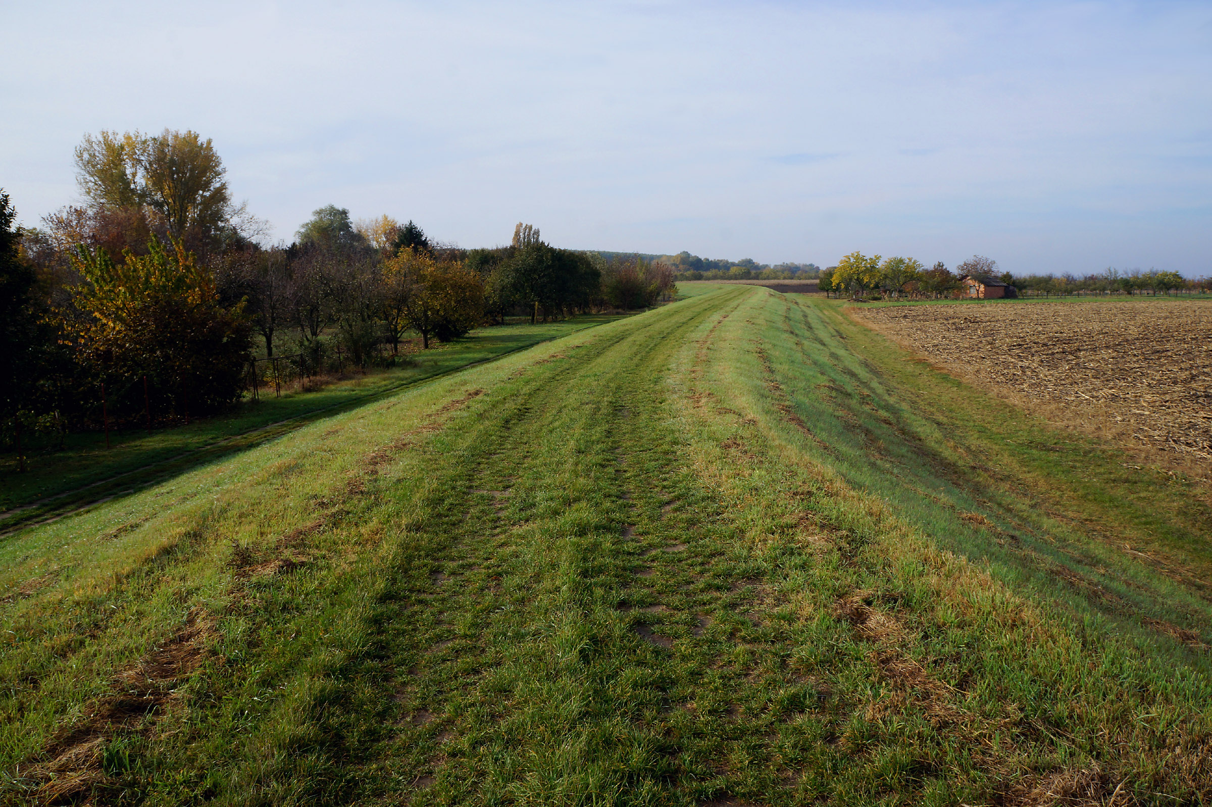 Flood control embankment at Tisza right bank. Near "Batka" oxbow in Senta, Serbia [BAC389]